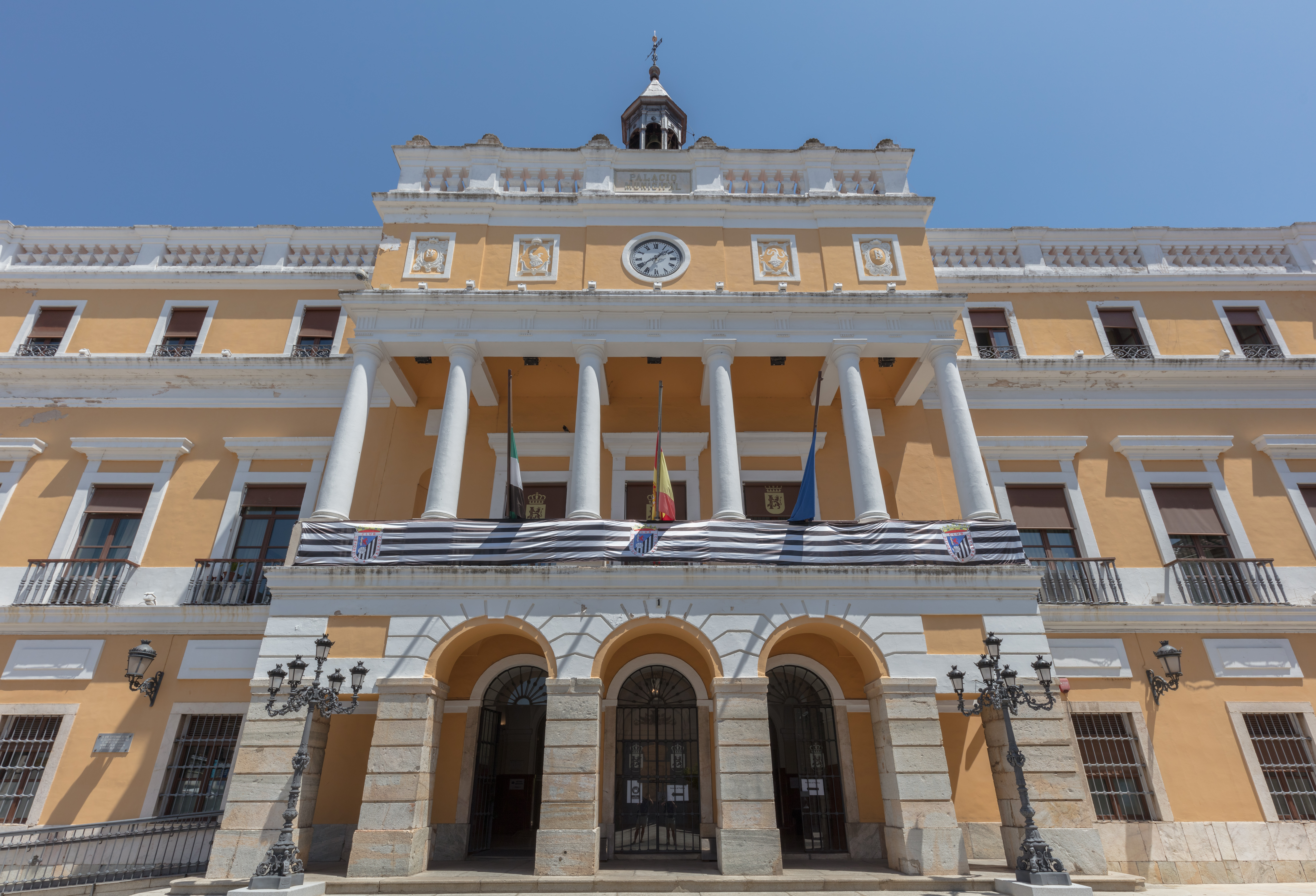 Town hall of Badajoz, Badajoz, Spain